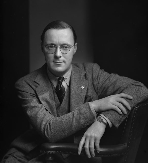 Prince Bernhard of the Netherlands, in Ottawa